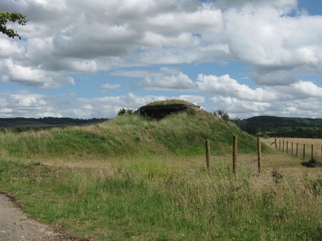 The Tump - An earth-covered hide at College Lake From the Information Board. The 'Tump' (mound or Hill) is sited on the highest point of the reserve to provide a sheltered elevated overview of the Farmland Wildlife Project 1412559 and the Chiltern Hill landscape. The mound itself consists of thousands of tons of soil, which was left to settle for two years before work could begin on the turf-roofed viewpoint. Roosting chambers for bats have been built into each side of the main chamber and several hidden nest boxes for birds, including Little Owl, have also been built in. Rabbits also appear to be moving in - even on the roof. Sheep will control graze the selected chalk turf to encourage downland flowers and prevent coarse vegetation from obscuring the views. The Tump stands as a monument to the amazing volunteers of College Lake who constructed it. Although few, they represent the many upon which the wildlife trust movement so depends. (College Lake Nature Reserve